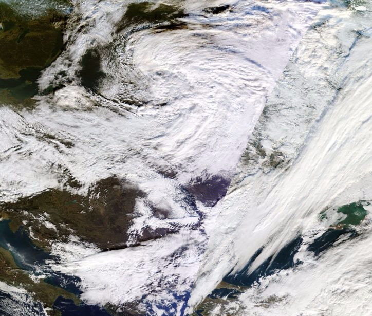 Storm Conor of the 2016–17 UK and Ireland windstorm season on 27 December 2016.